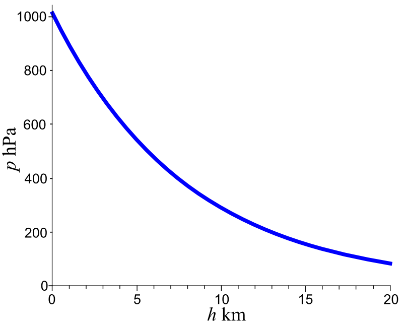 Air pressure